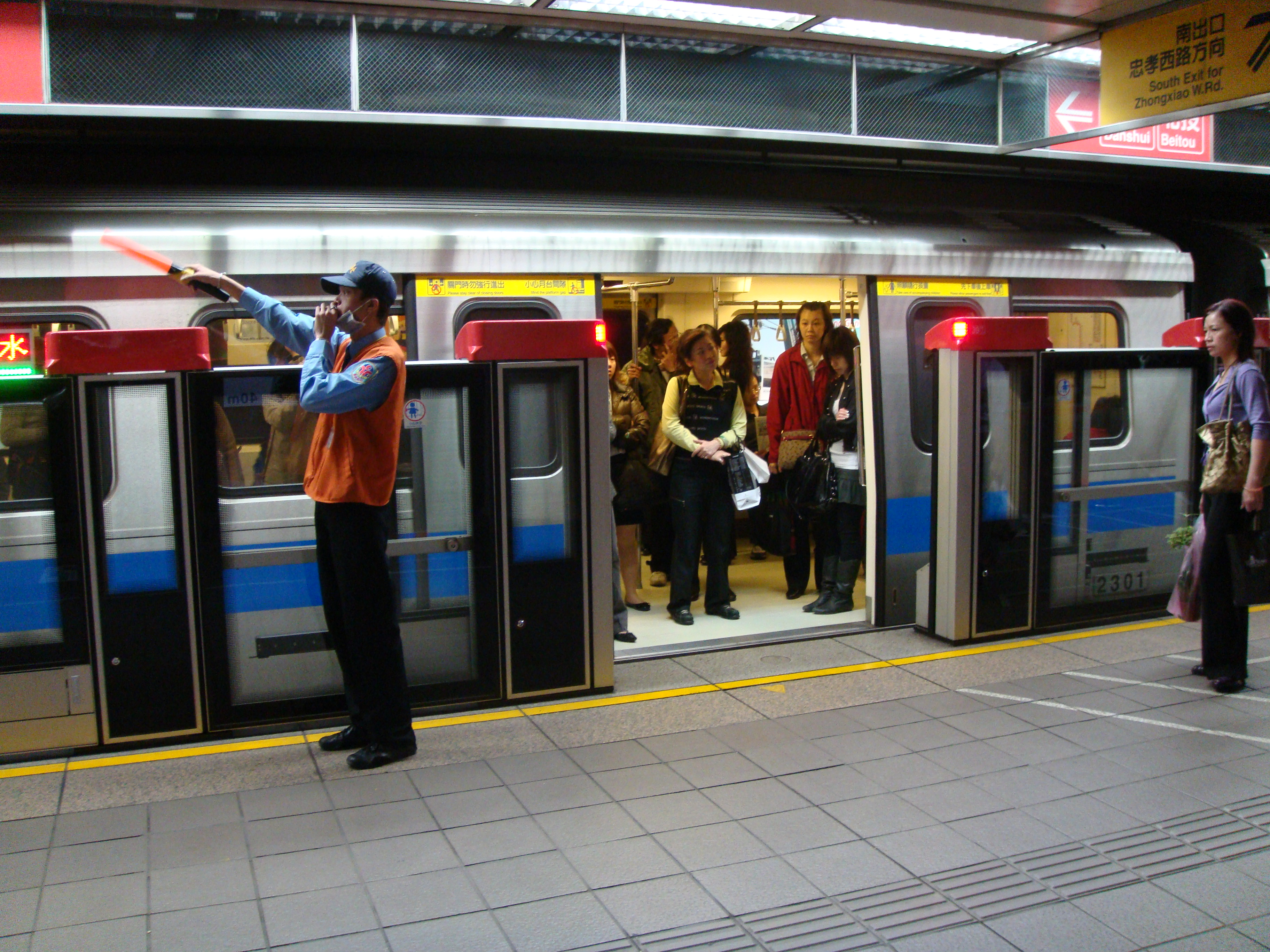 Platform staff before train departure at Taipei Main Station, Taipei Metro, Taipei.Bân-lâm-gú: Tâi-pak-tshī Tâi-pak-tsiat-ūn ê Tâi-pak-tsām , kang-tsok jîn-uân tī tshia beh khui-tsáu ê sî. 臺北市臺北捷運的臺北站，工作人員佇車欲開走的時。